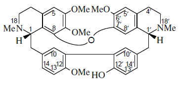 Rodiasine scheme